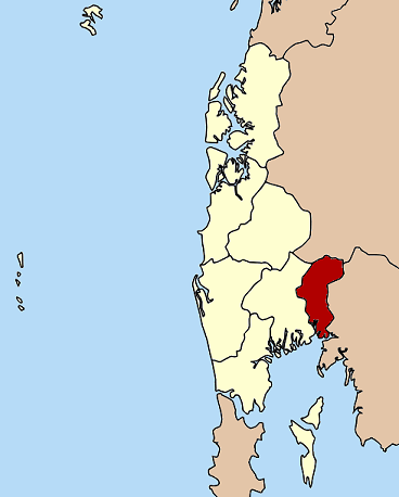 Map of Phang Nga province, Thailand, highlighting the district Thap Put (geocode 8207).